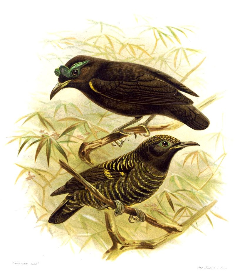 Philepitta castanea (Velvet Asity)